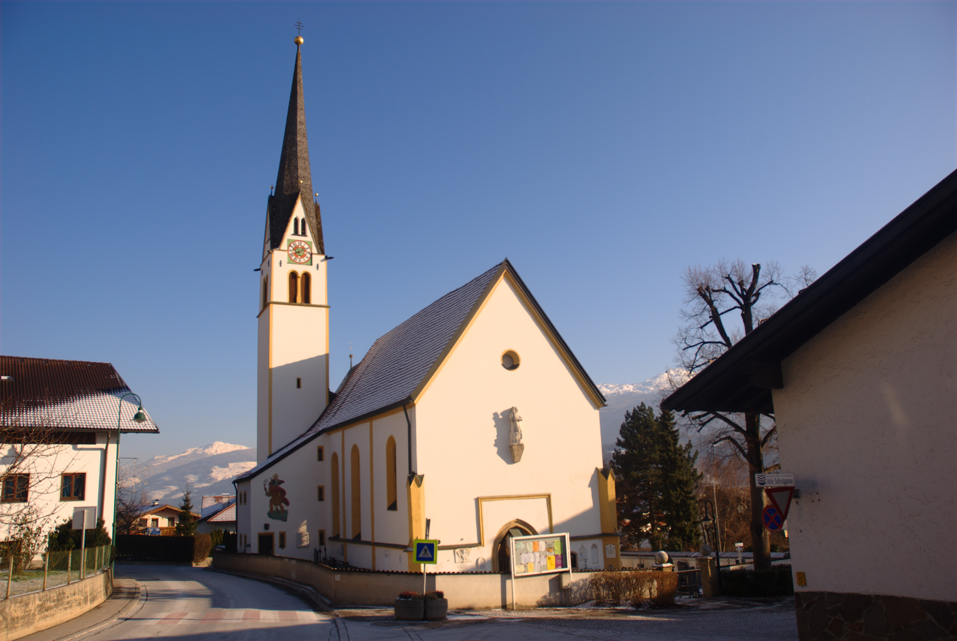 The parish church of Rum in Tyrol near Innsbruck